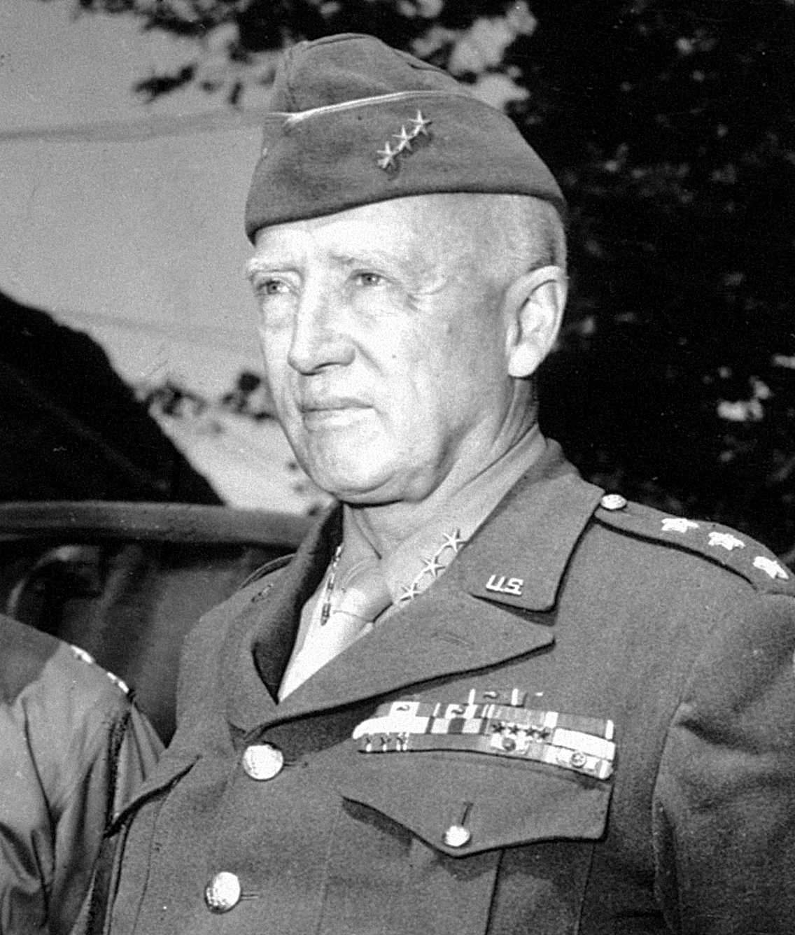 George S. Patton signed photo by U.S. Army